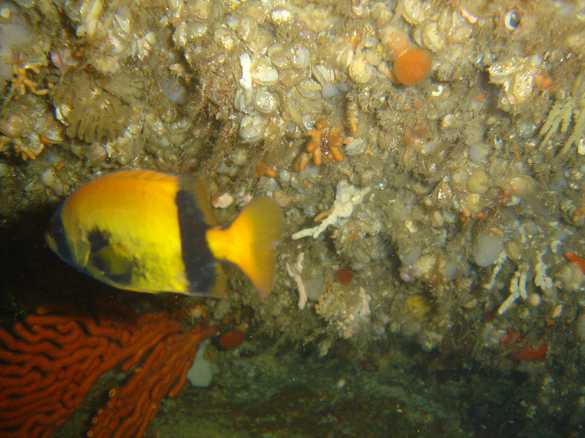 Juvenile Cape knifejaw at Pyramid rock reef